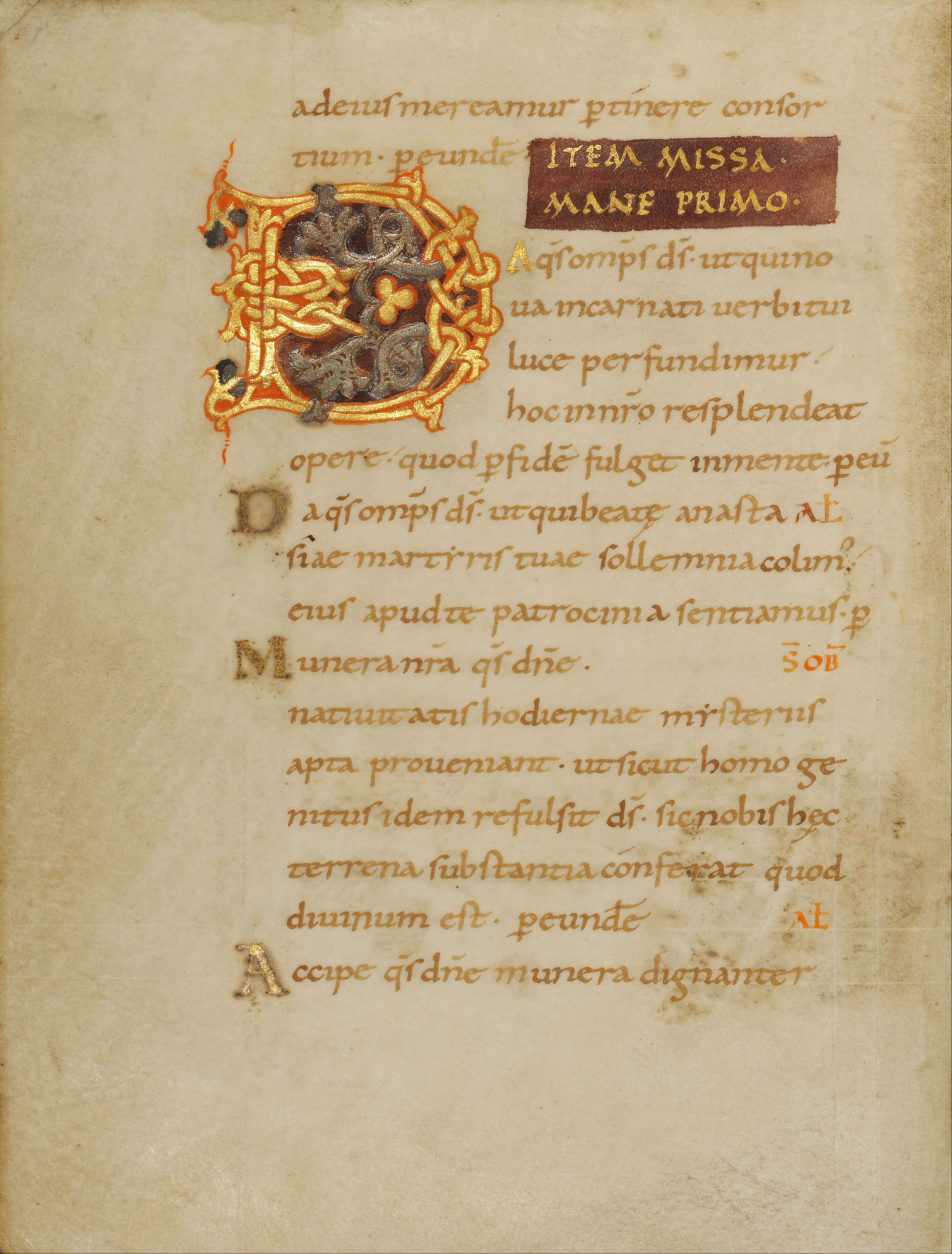 Medieval scribes used the size, color, decoration, and style of script to help readers understand a book's contents and sometimes to mark the function of the different parts of the text. On this text page, the initial D, the largest decorative element on the page, emphasizes the beginning of the first prayer for the second Mass of Christmas day. The letter is composed of geometric interlace and leaf forms executed in gold and silver ink on a reddish-purple ground.